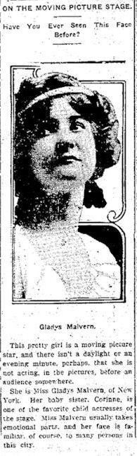 a photo of a newspaper clipping from 1910, showing Gladys Malvern, author and actress.